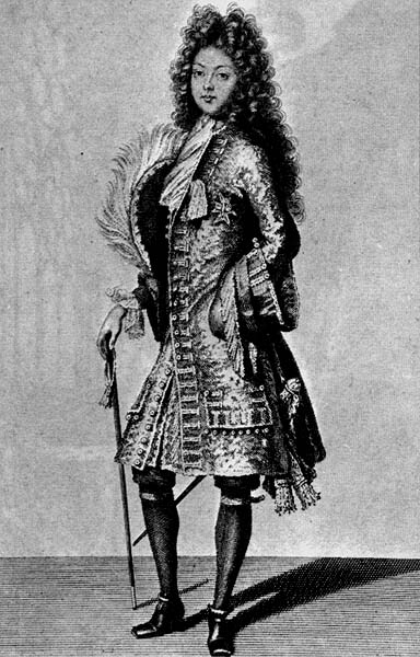 Louis Auguste de Bourbon, Duke of Maine, son of King Louis XIV. of France and his maitresse, the famous Madame de Montespan, 1695